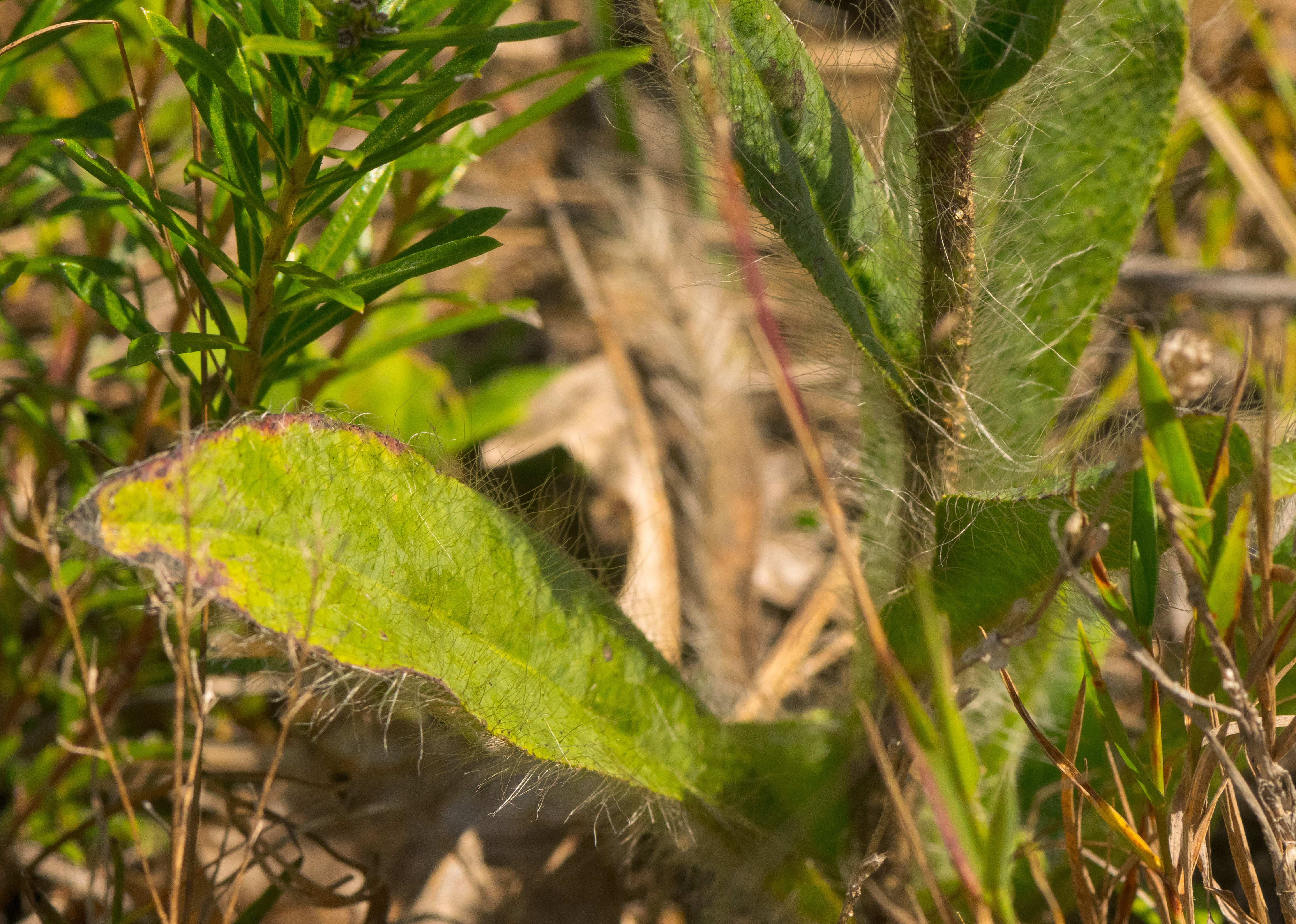 Spring Green Preserve Wisconsin State Natural Area #102 Sauk County